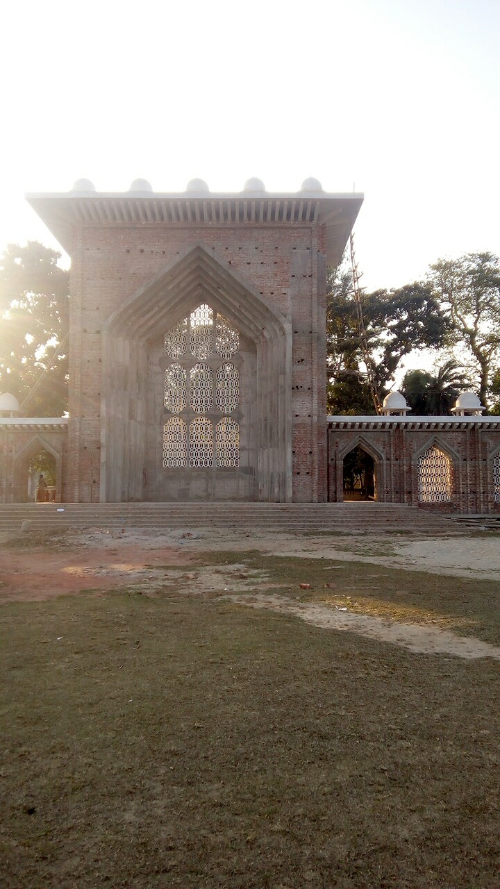 It's under contaction